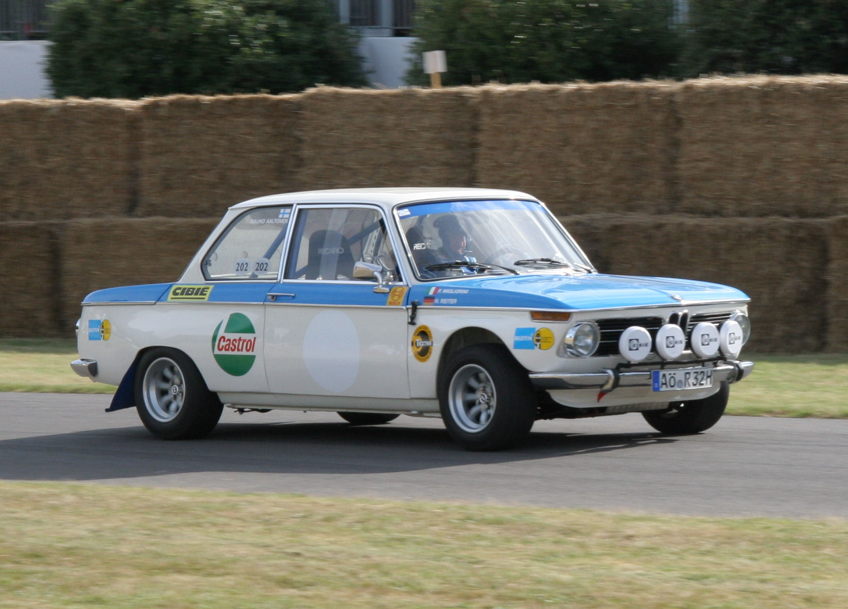 BMW 2002ti rally car driven by Rauno Aaltonen in 1971 and 1972.